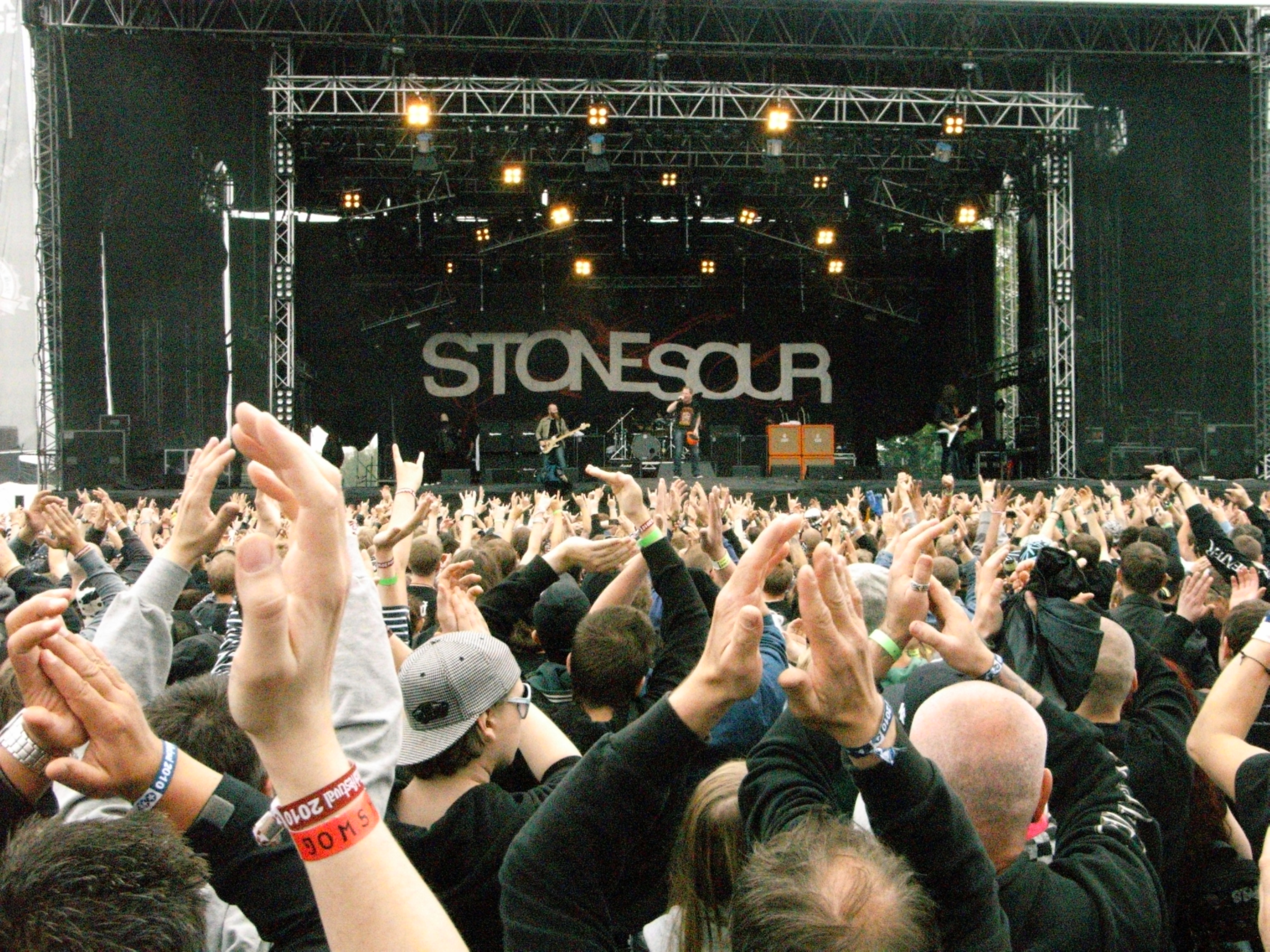 Stone Sour performing at the Sweden Rock Festival in June 2010.